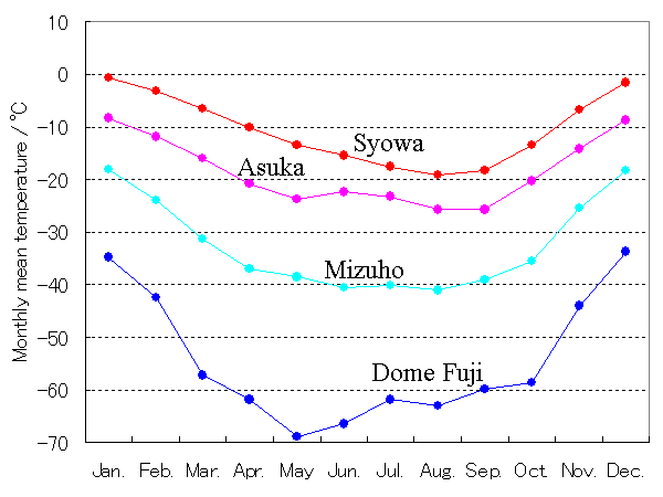 Antarctic monthly mean temperature(Japanese research station).